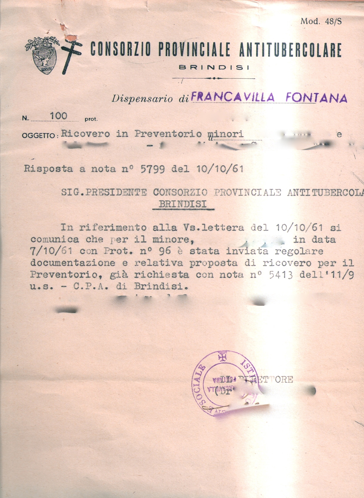 dispensario